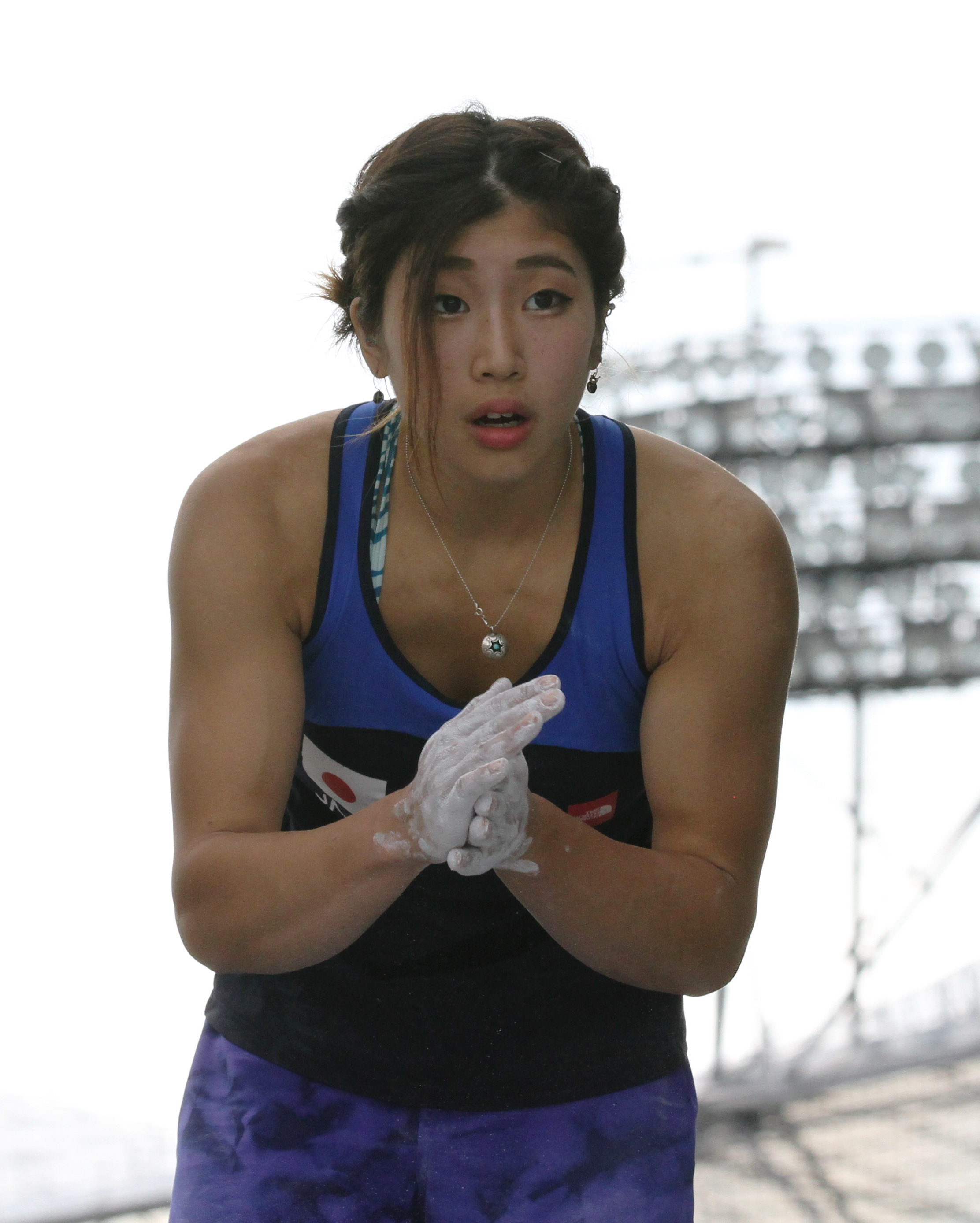 IFSC Boulder Worldcup, Munich 2015. Miho Nonaka (JAP)